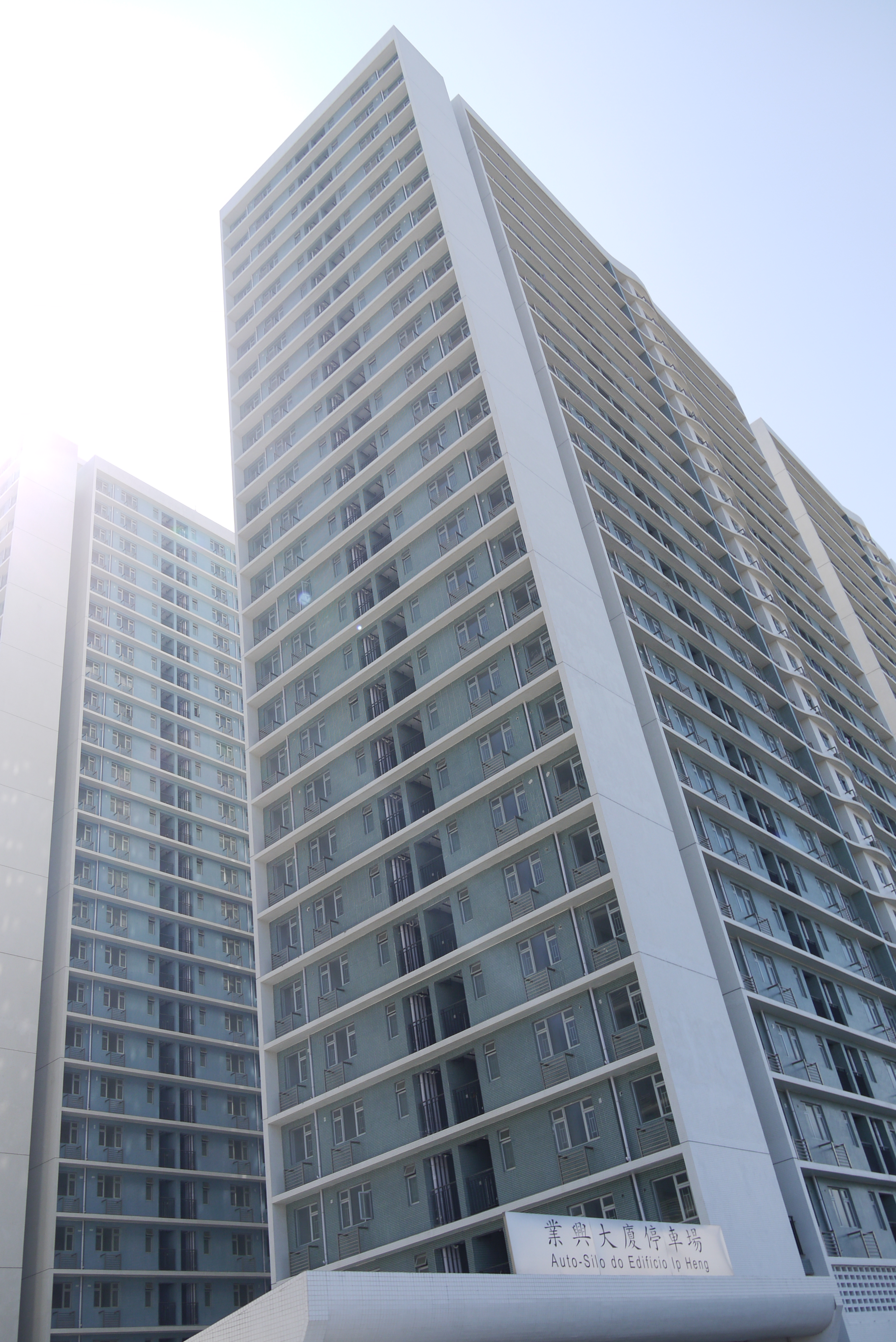 Edificio Ip Heng